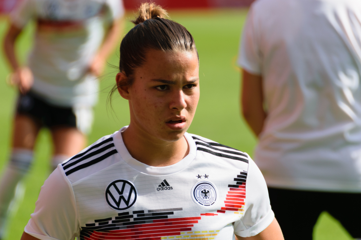 Lena Oberdorf warming up before the friendly vs Chile, 30 May 2019